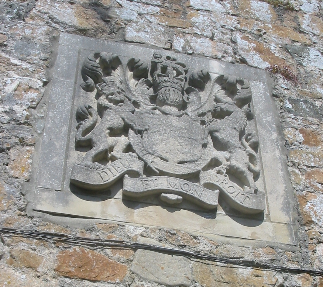 Castle Cornet, Saint Peter Port, Guernsey, May 2009